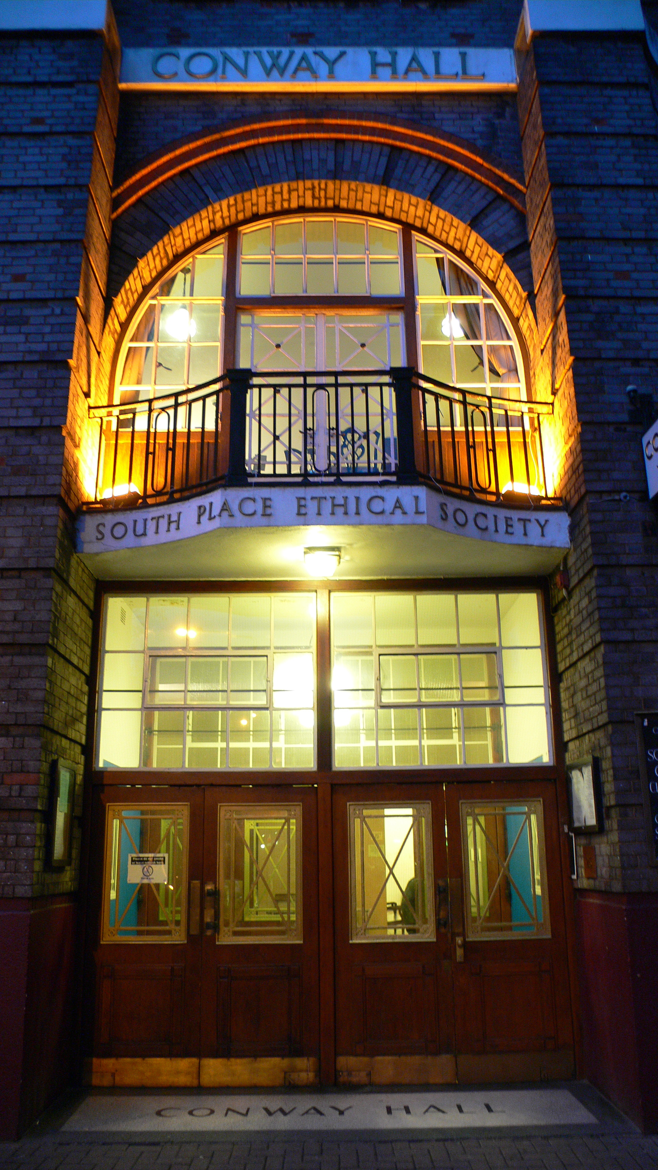 Conway Hall Ethical Society, Red Lion Square, Holborn, London